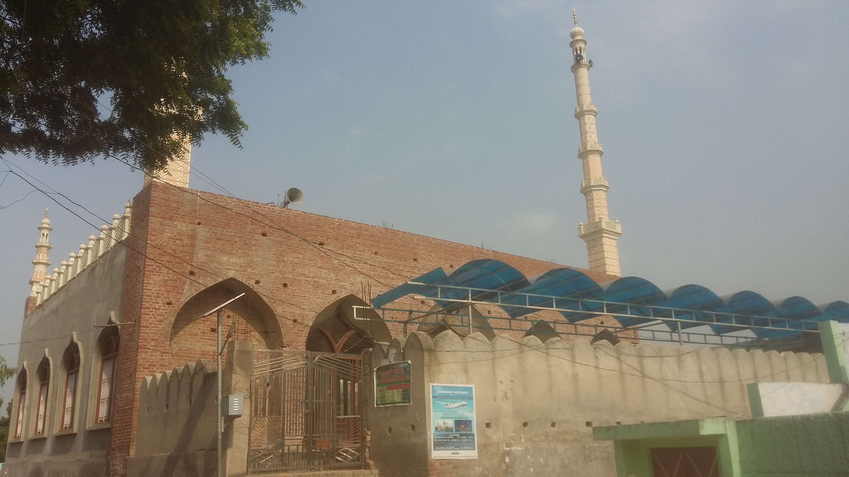 this is juma masjid very famous mosque in chhlas sadat.people gather here for prayer.